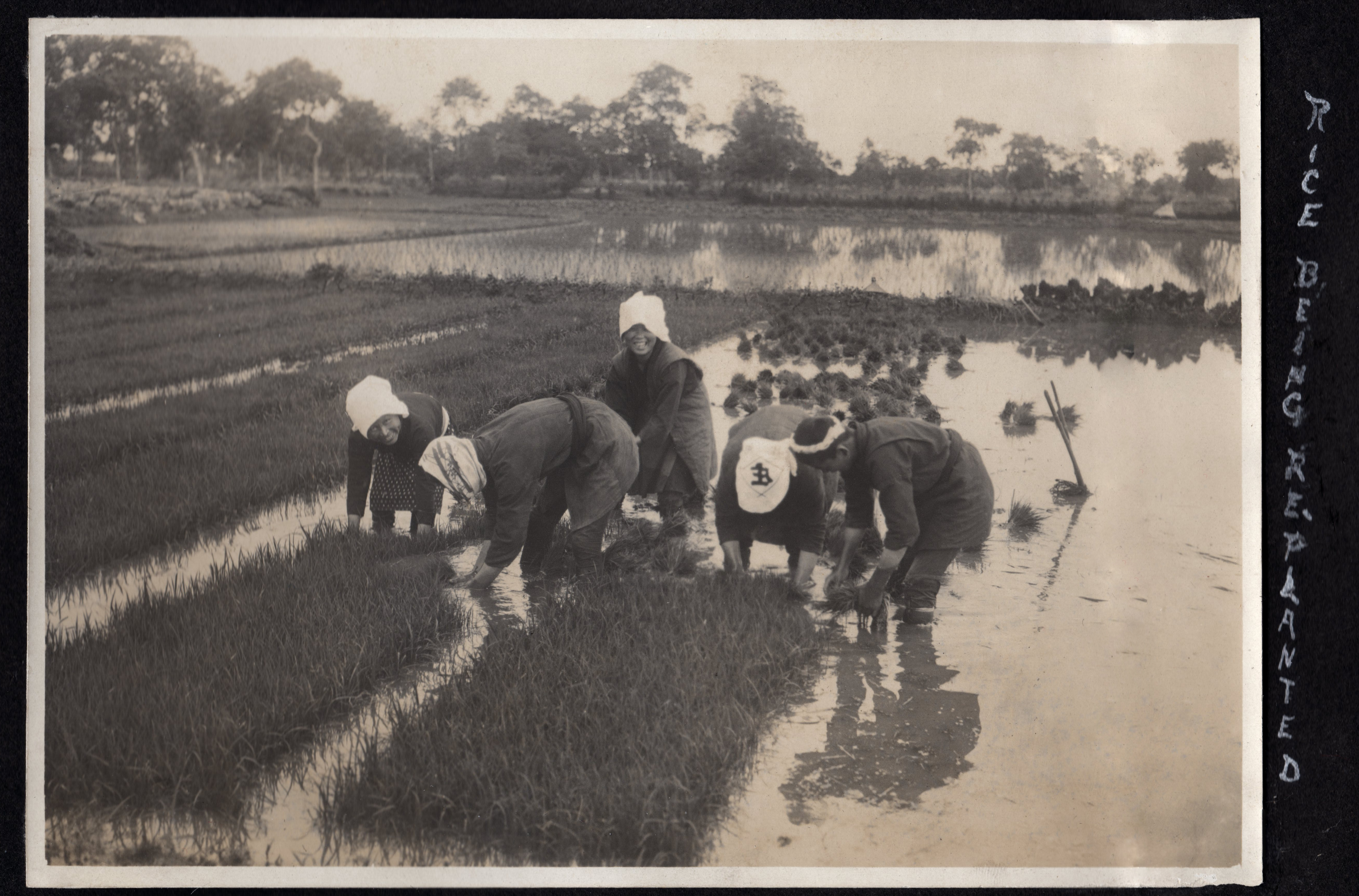 From page two of Elstner Hilton's album of photographs he took in Japan between 1914 and 1918. Image dimensions: 147mm x 101mm.